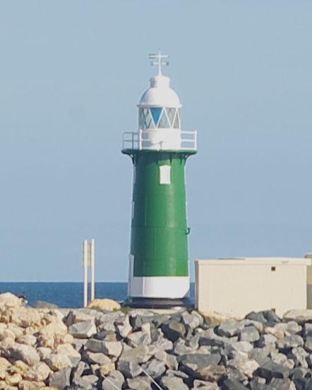 South Mole Lighthouse, Fremantle Harbour